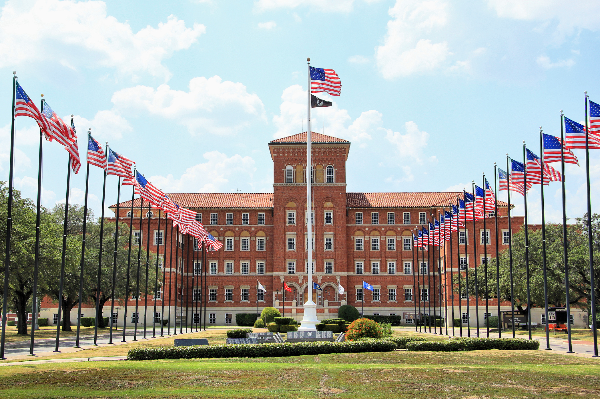 Part of the Veterans Administration Hospital Historic District in Waco, Texas, United States. The district was listed on the National Register of Historic Places on July 18, 1994.